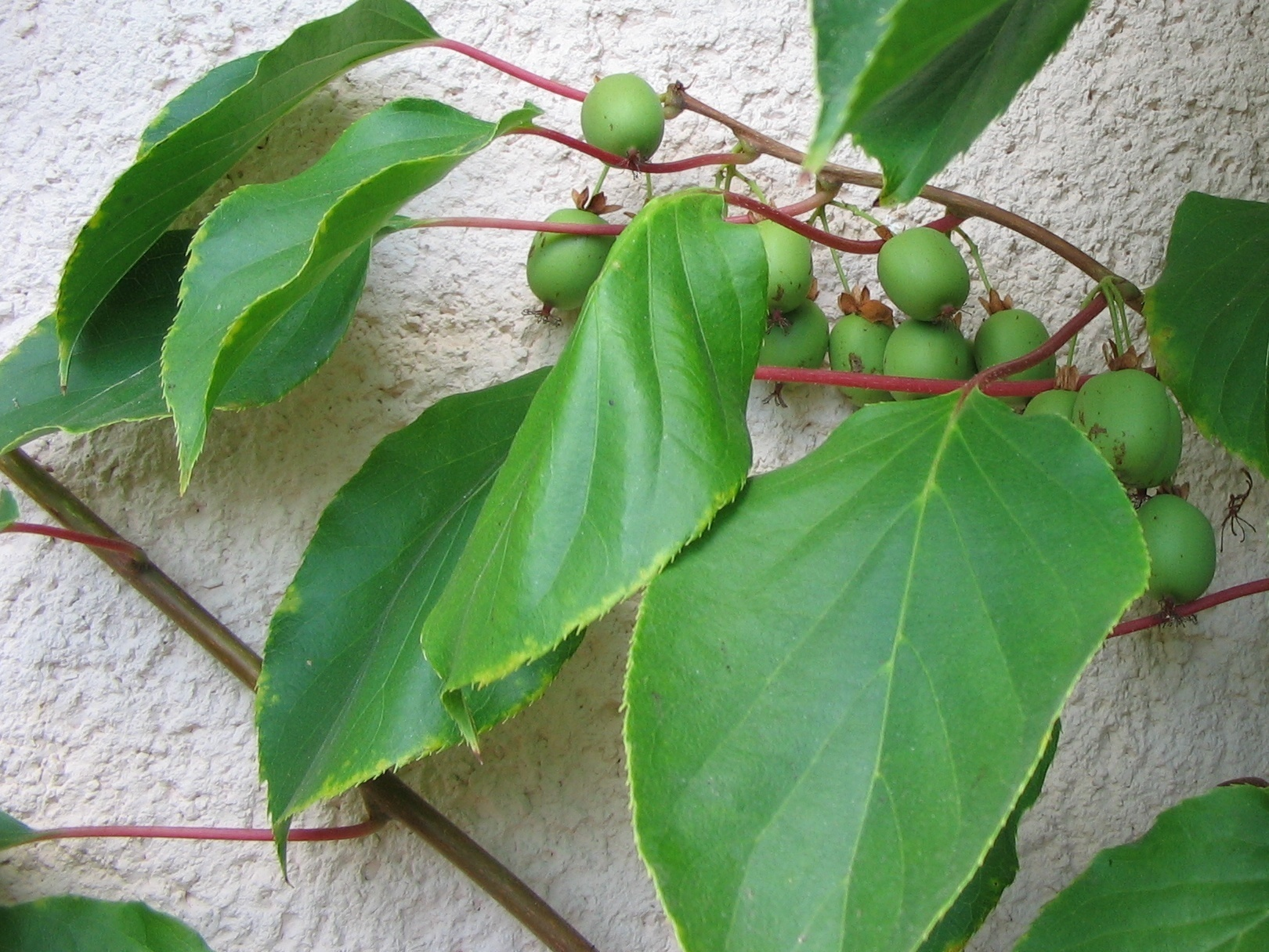 Actinidia arguta 'Weiki', Kiwi-fruit, small 'Weiki'